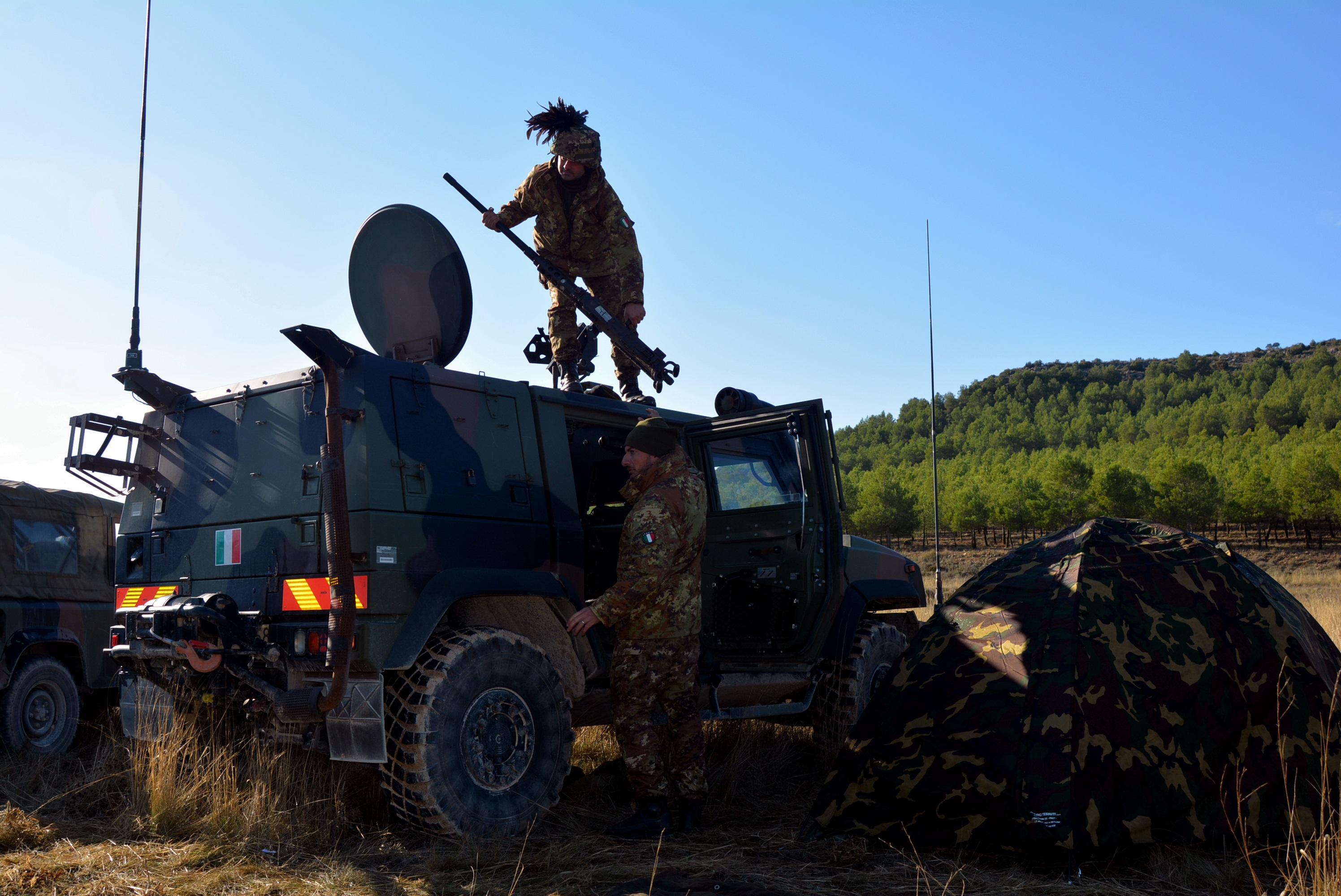 An Italian Army tactical vehicle at Chinchilla, Spain during NATO exercise Trident Juncture 15.